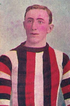 Cigarette card of Vic Barwick from the 1905 Wills Past and Present Champions series.